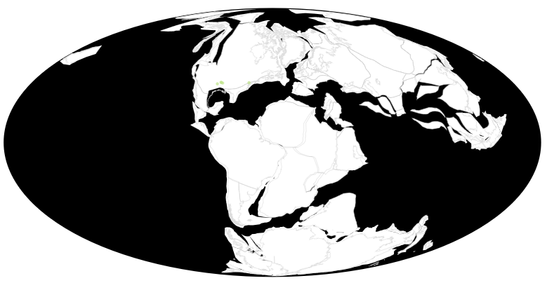 Palaeogeography of the Earth in Aptian, with location of Acrocanthosaurus fossils as green dots